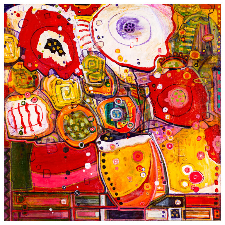 RAE HEINT